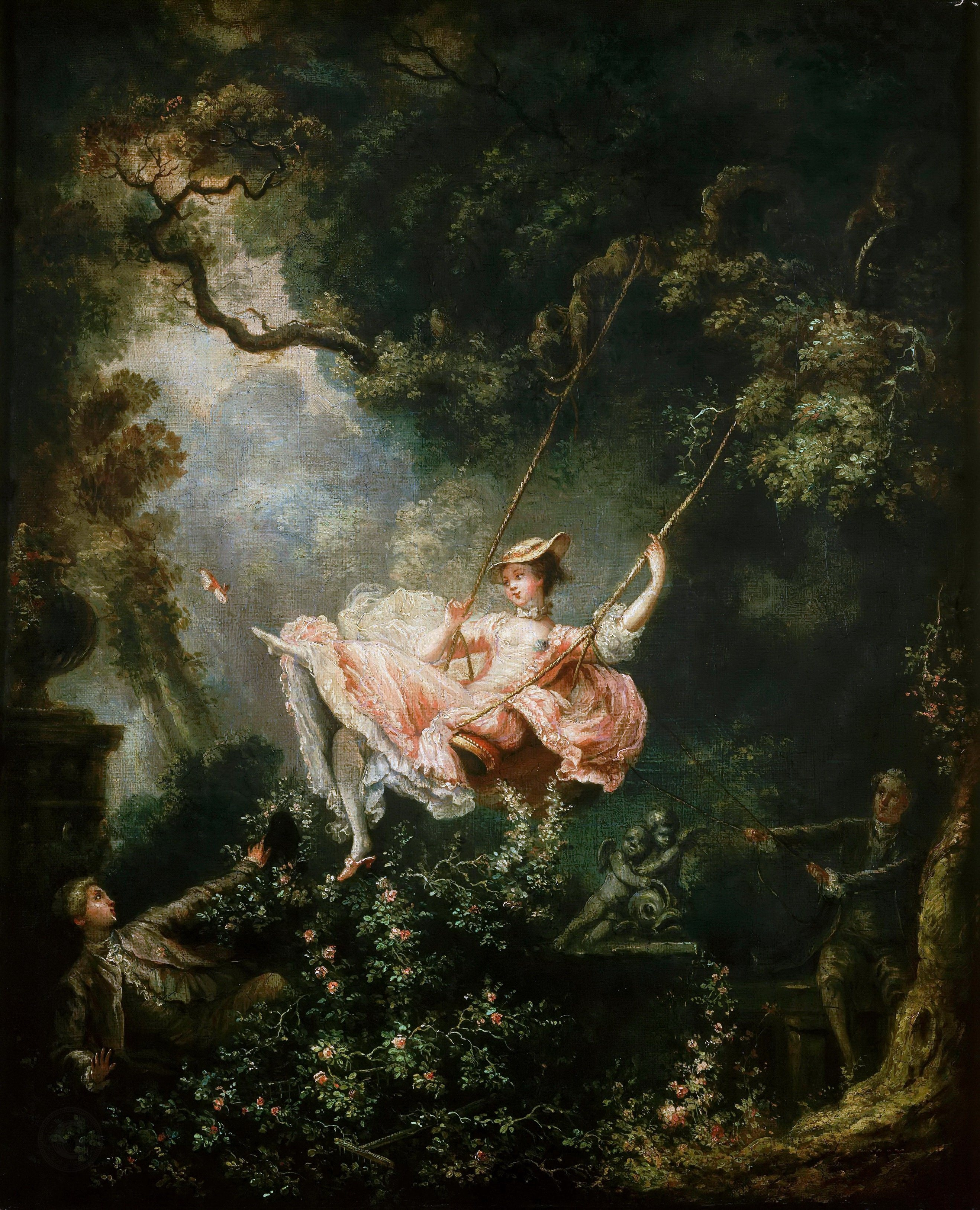 Copy of "The Swing" attributed to the studio of Joean Honoré Fragonard